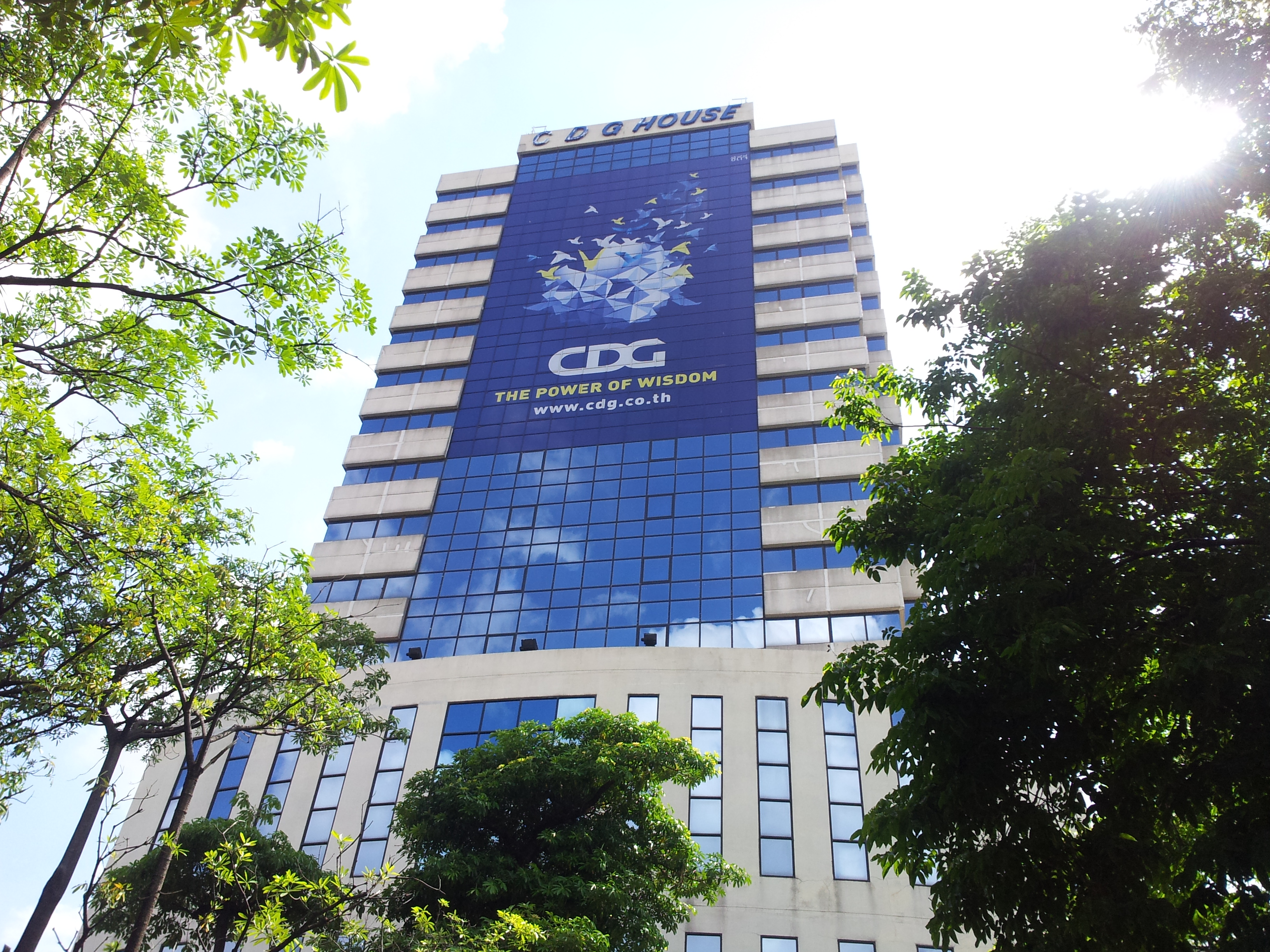 CDG House